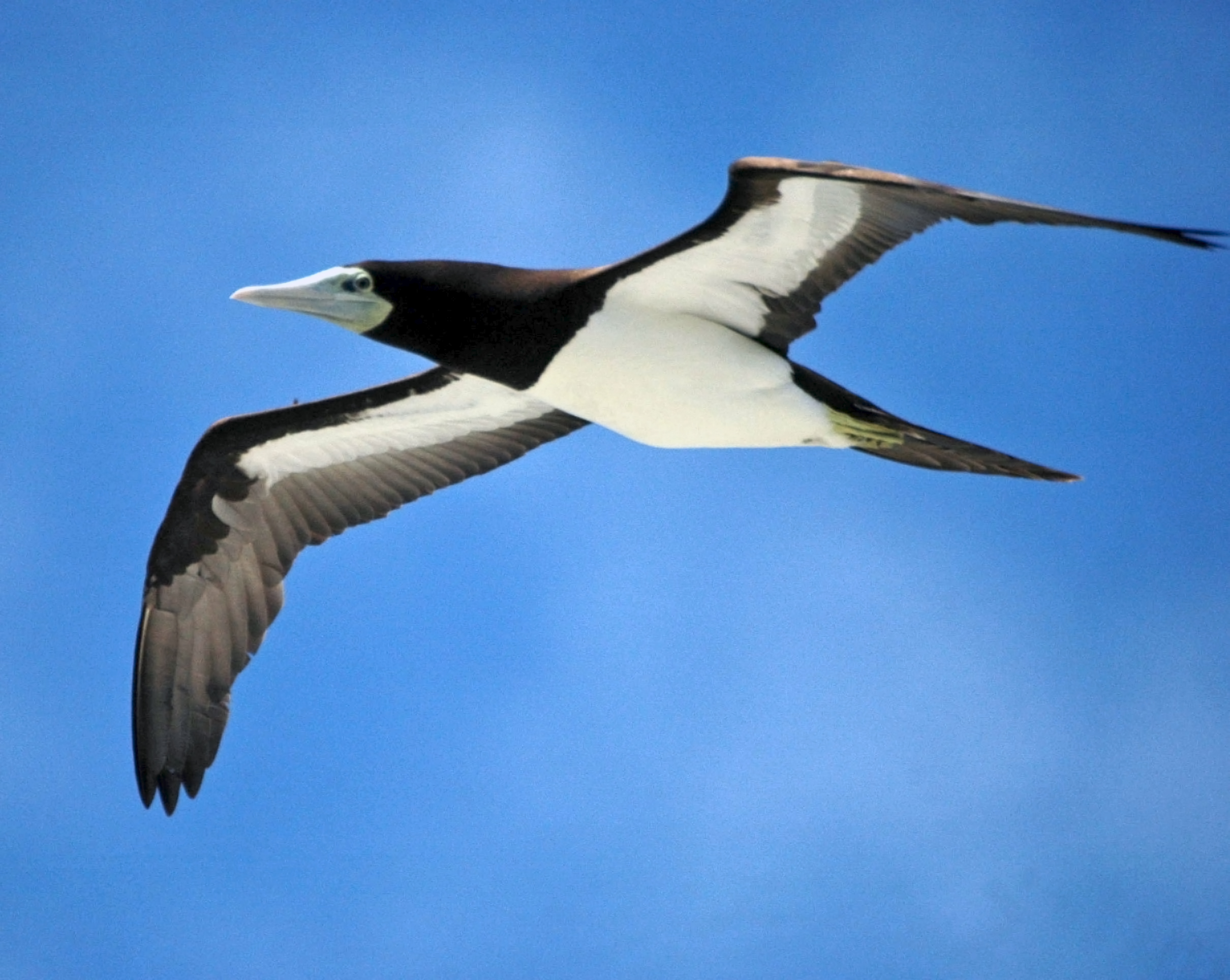 Brown Booby Sula Sula leucogaster Lady Elliot Island, SE Queensland, Australia